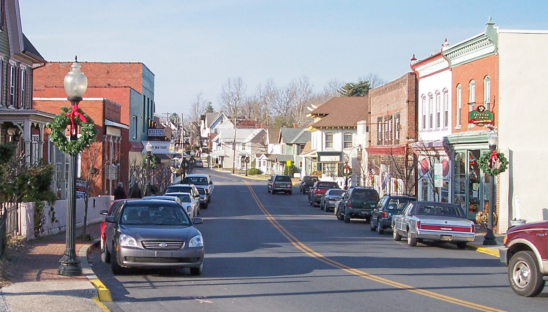 Union Street (Delaware Route 5) in Milton, Delaware